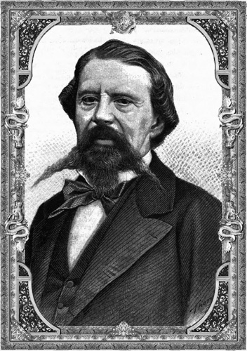 Self-portrait of Rómulo Díaz de la Vega, Lithograph (1870-1907).